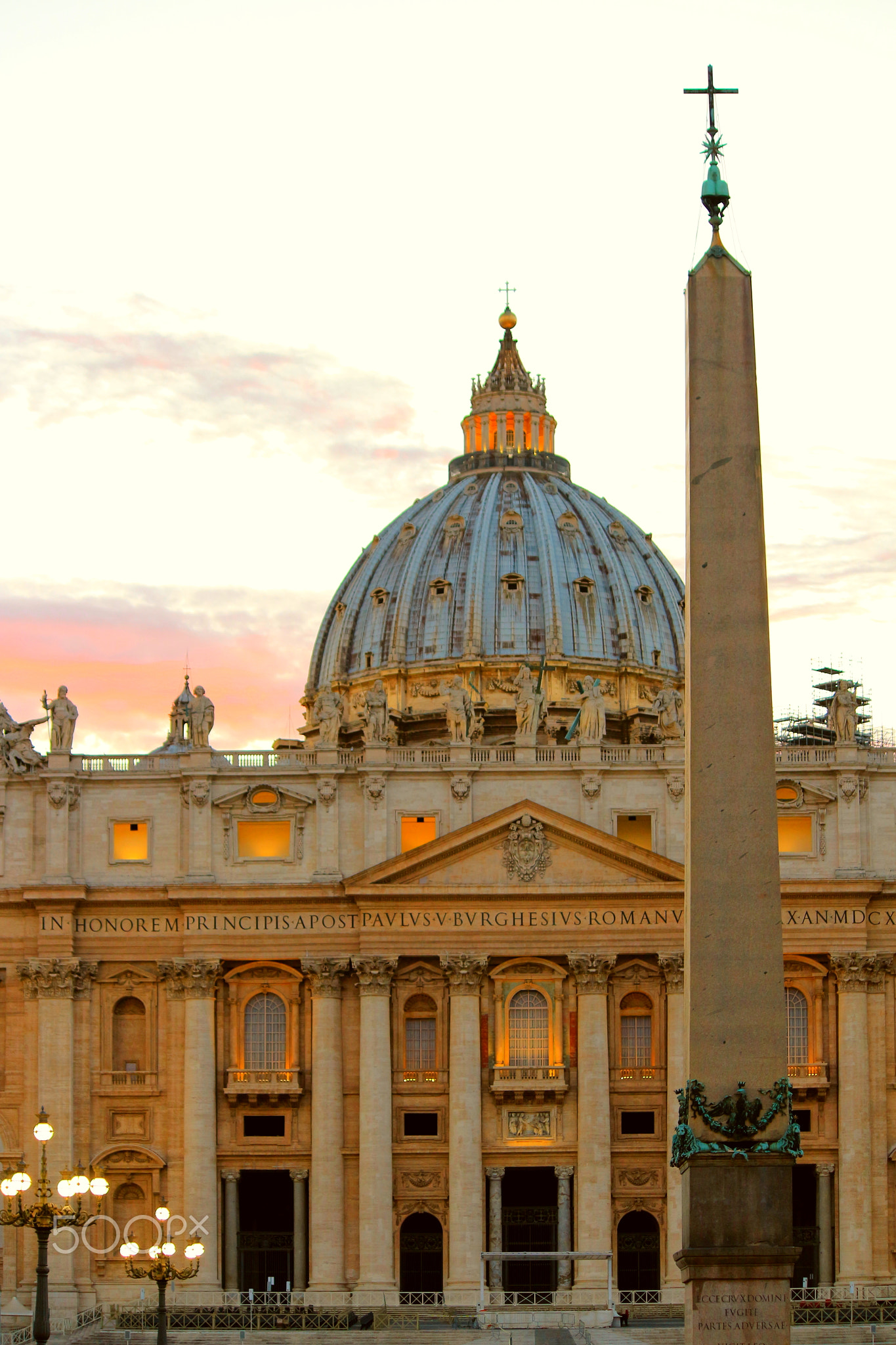 500px provided description: Vatikan [#Italy ,#Rome ,#Italien ,#Rom ,#Vaticano ,#Roma ,#Vatikan ,#Vatikan Dom]